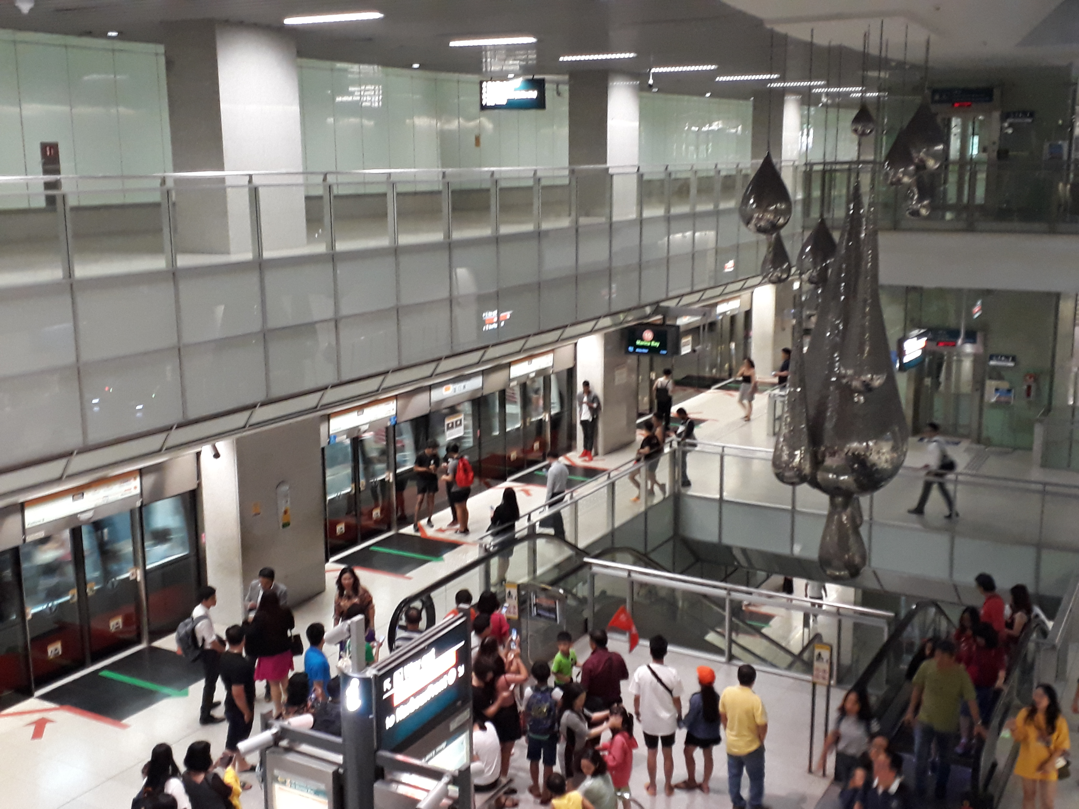 A crowded platform at Promenade